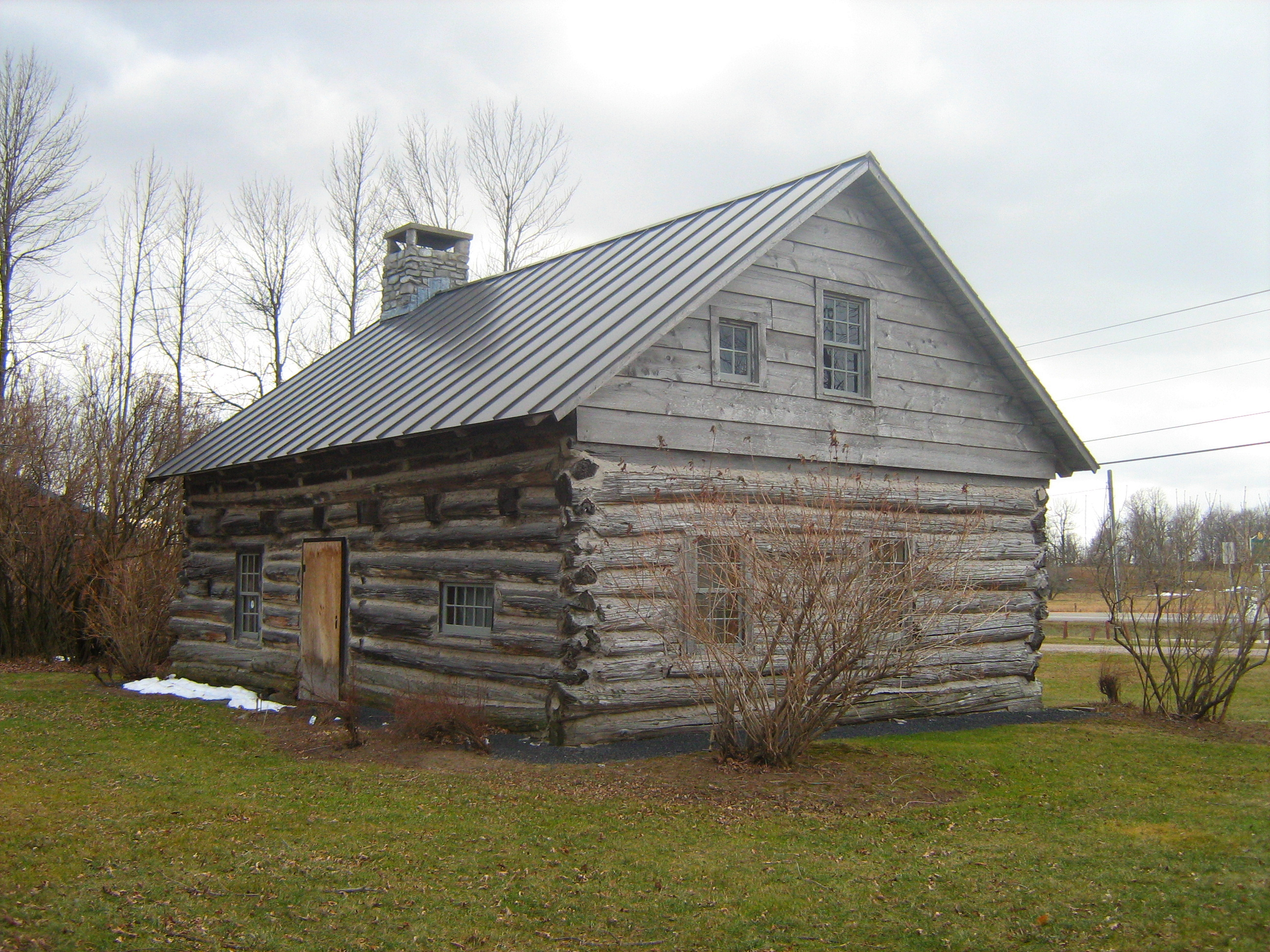 Hyde log cabin in Grand Isle, Vermont. Built in 1783, believed to be the oldest log cabin in the US. Home to the Hyde family for 150 years.